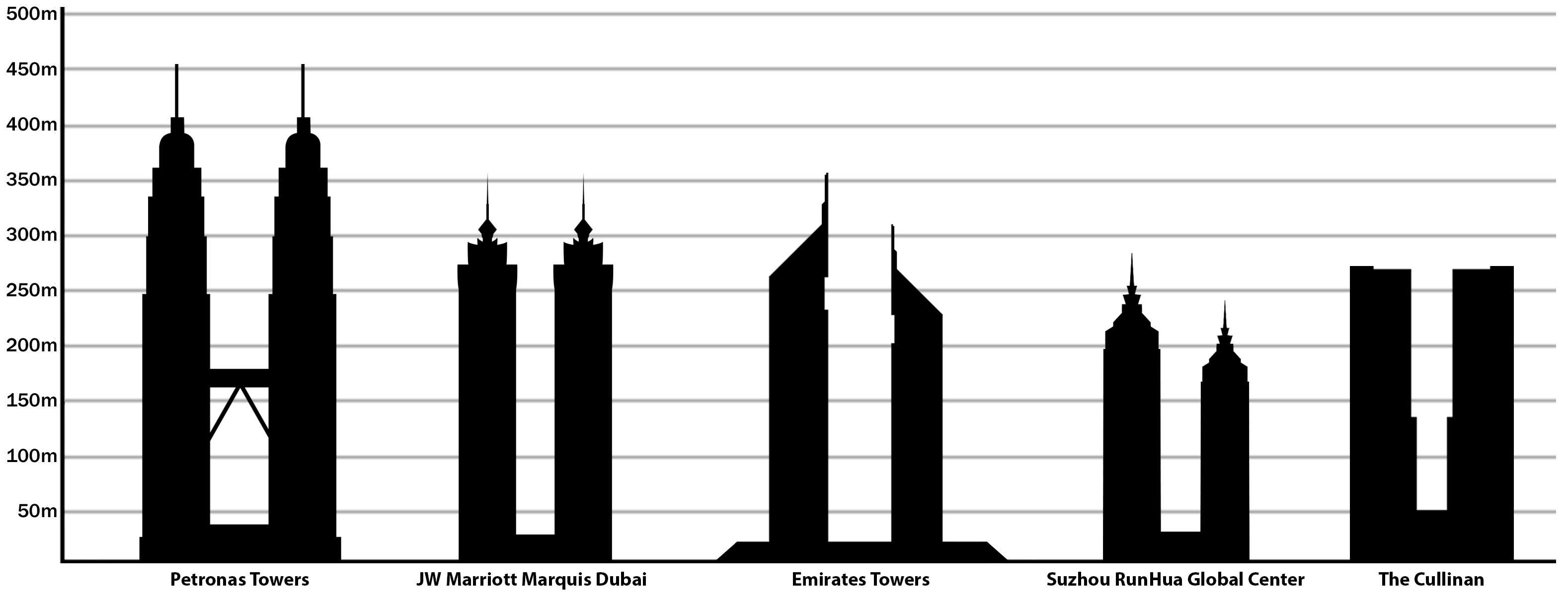 Tallest twin buildings in the world; Used data from